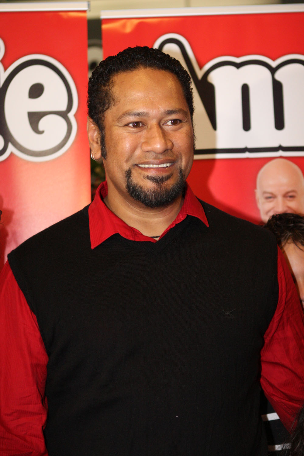 Jay Laga'aia attending the Annie Opening Night - Red Carpet.